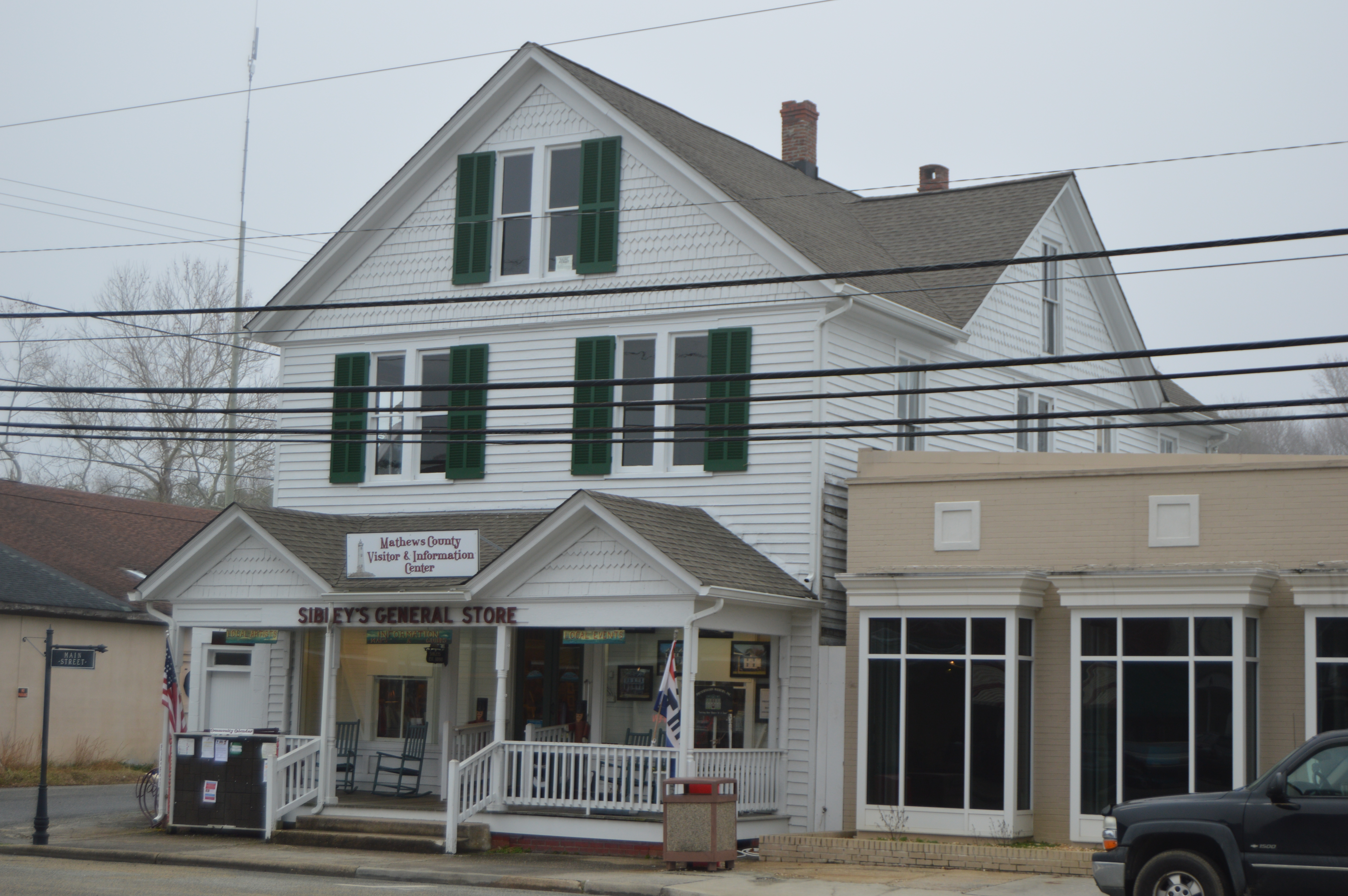 Front and southern side of the former Old Sibley General Store, located on the southeastern corner of the intersection of Main Street (State Route 14) and Maple Avenue in central Mathews, Virginia, United States. Built in 1899, it forms a historic district, the "Sibley's and James Store Historic District", that is listed on the National Register of Historic Places.